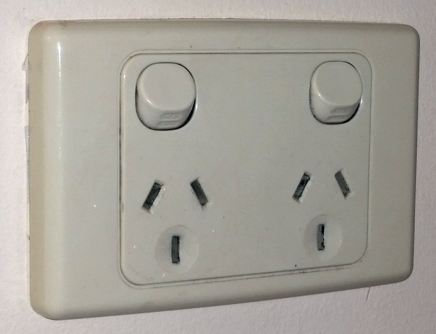 Australian dual socket outlet with switches, as required by AS/NZS 3000